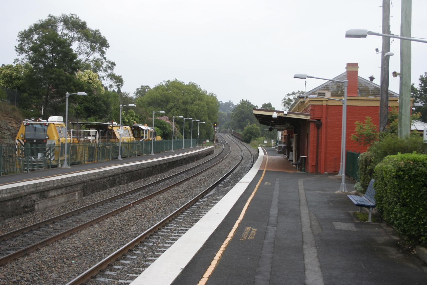 Picton railway station